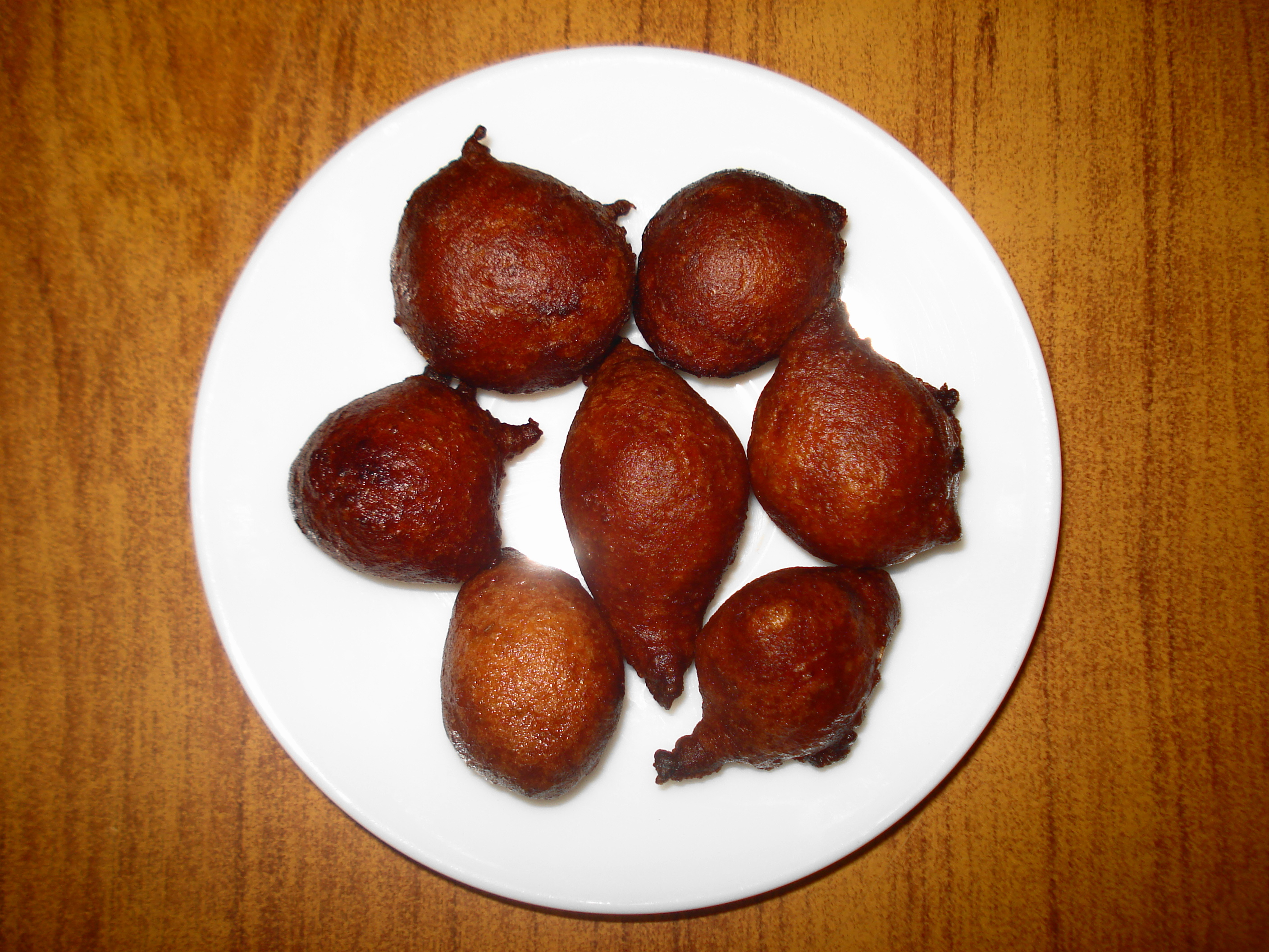 Gulgule, a sweet snack from the Indian subcontinent.